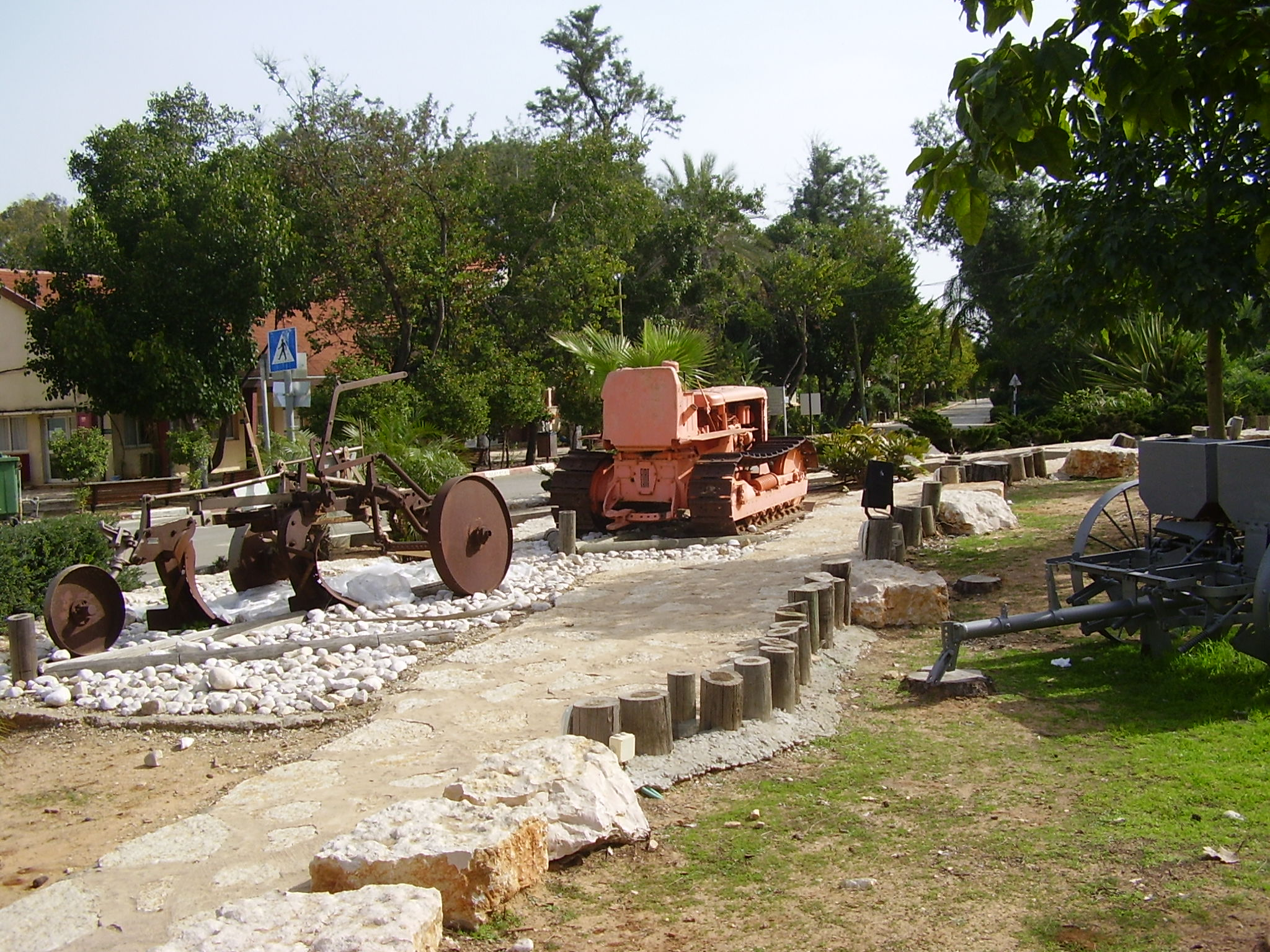 the green village